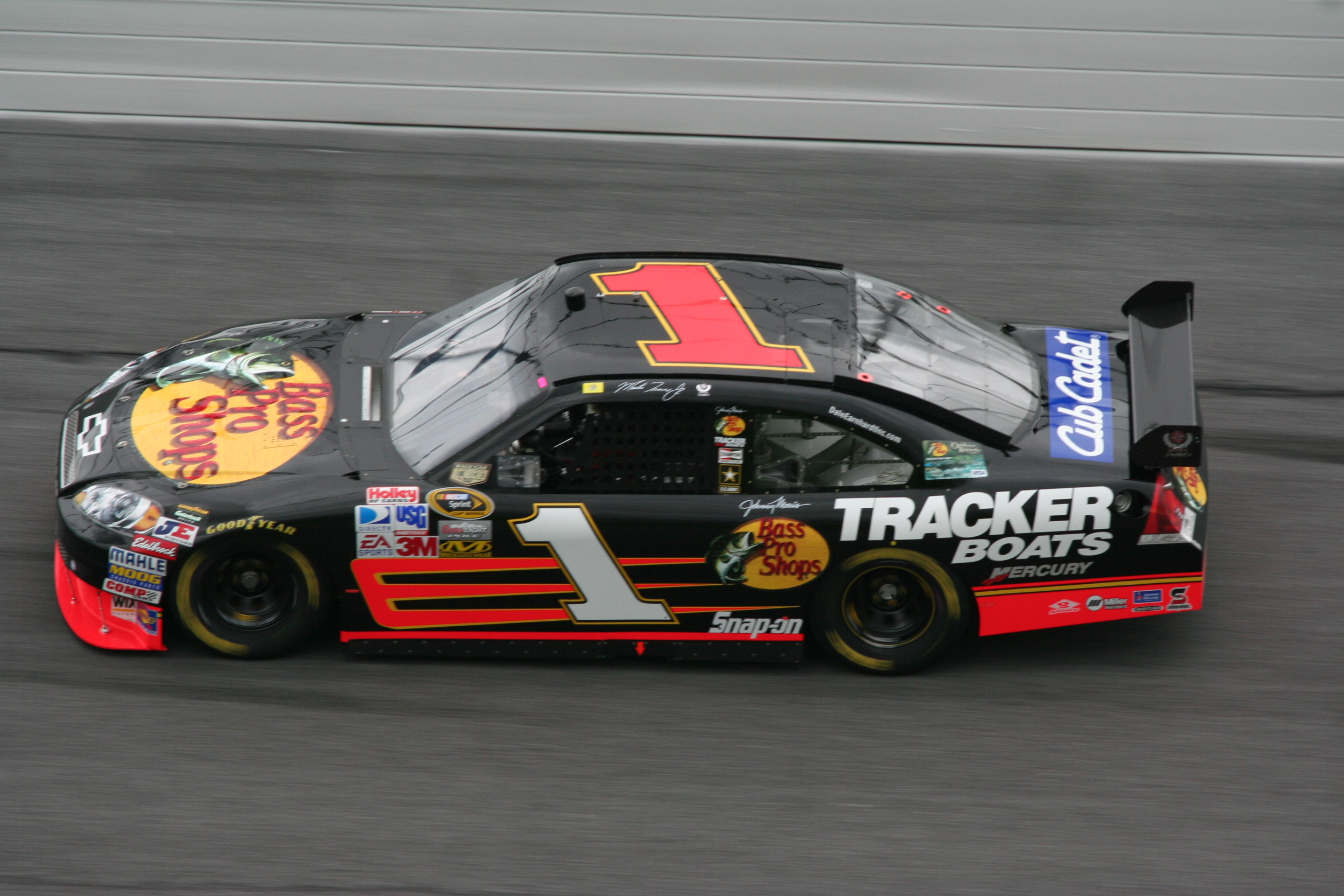 Shot by The Daredevil at Daytona during Speedweeks 2008Martin Truex, Jr. Bass Pro Shops Chevy Impala